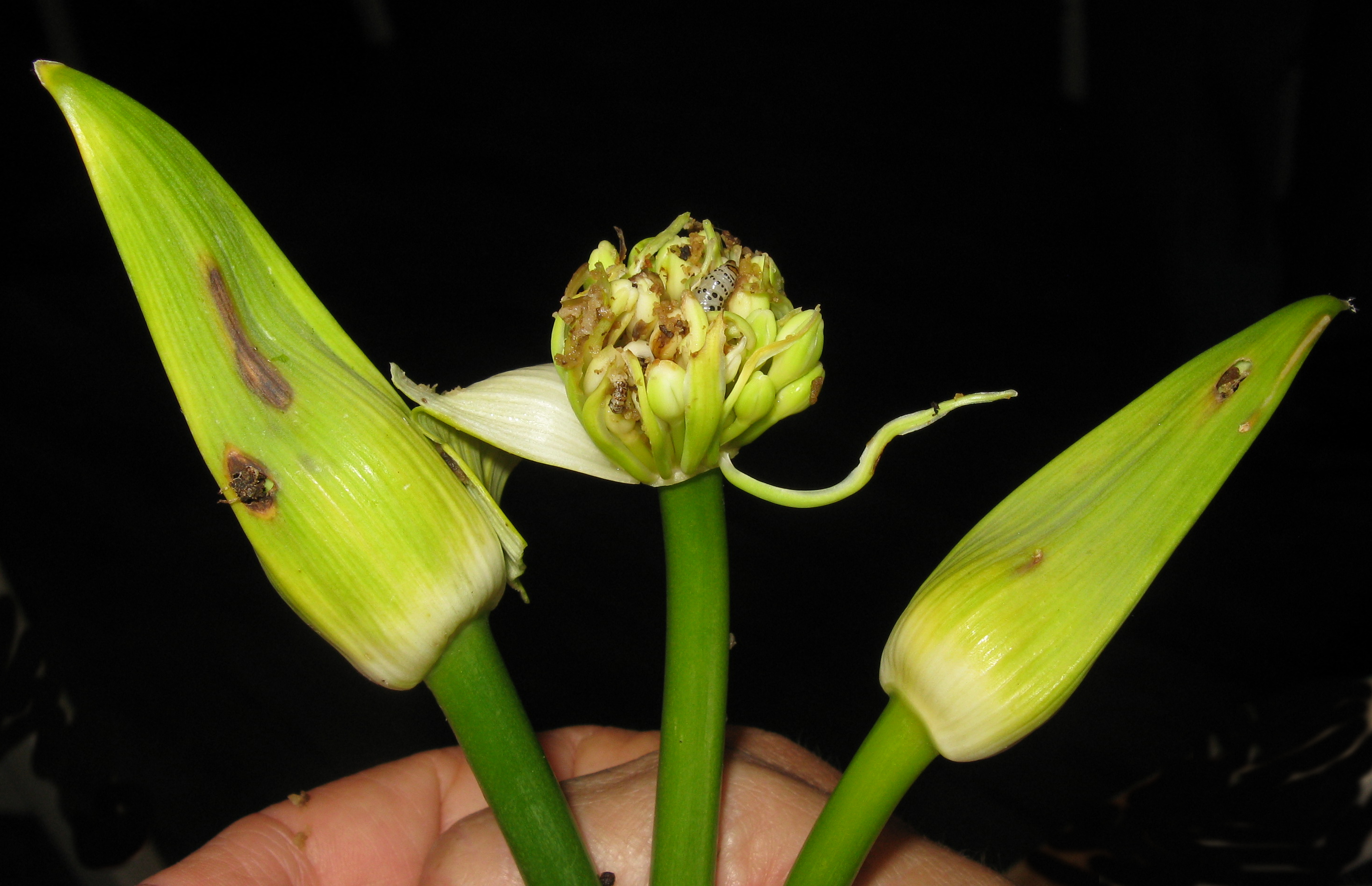 Neuranethes spodopterodes Noctuidae. Agapanthus borer. Damage to buds of inflorescence. Larva exposed in central bud.